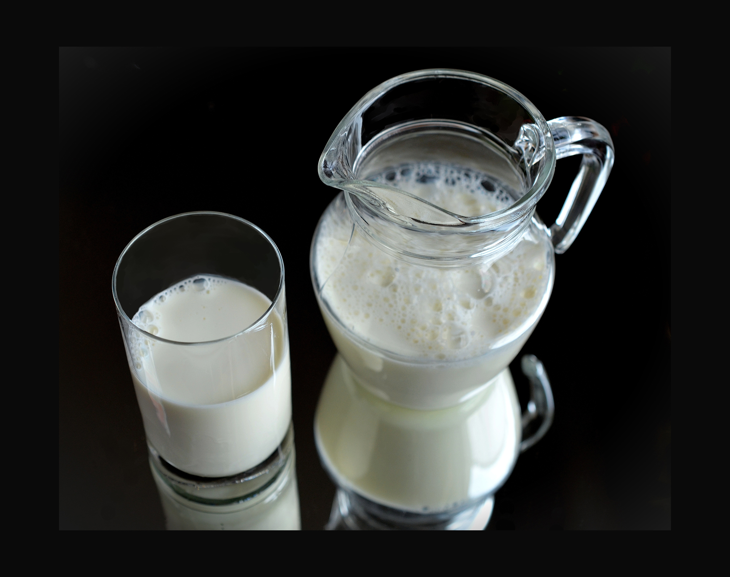 Piràmide d'aliments de l'Empordà